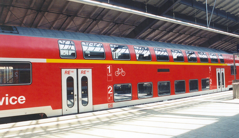 I went from Berlin to Frankfurt (Oder) on a Regional express double-decker train. I rode in this car, which had first class upstairs and second class downstairs. The train was hardly an express. It stopped at just about every station. It had a display that showed the next several stops. I took this photo in Frankfurt (Oder) station.